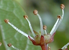 Perrottetia sandwicensis (flower). Location: Maui, Makawao Forest Reserve